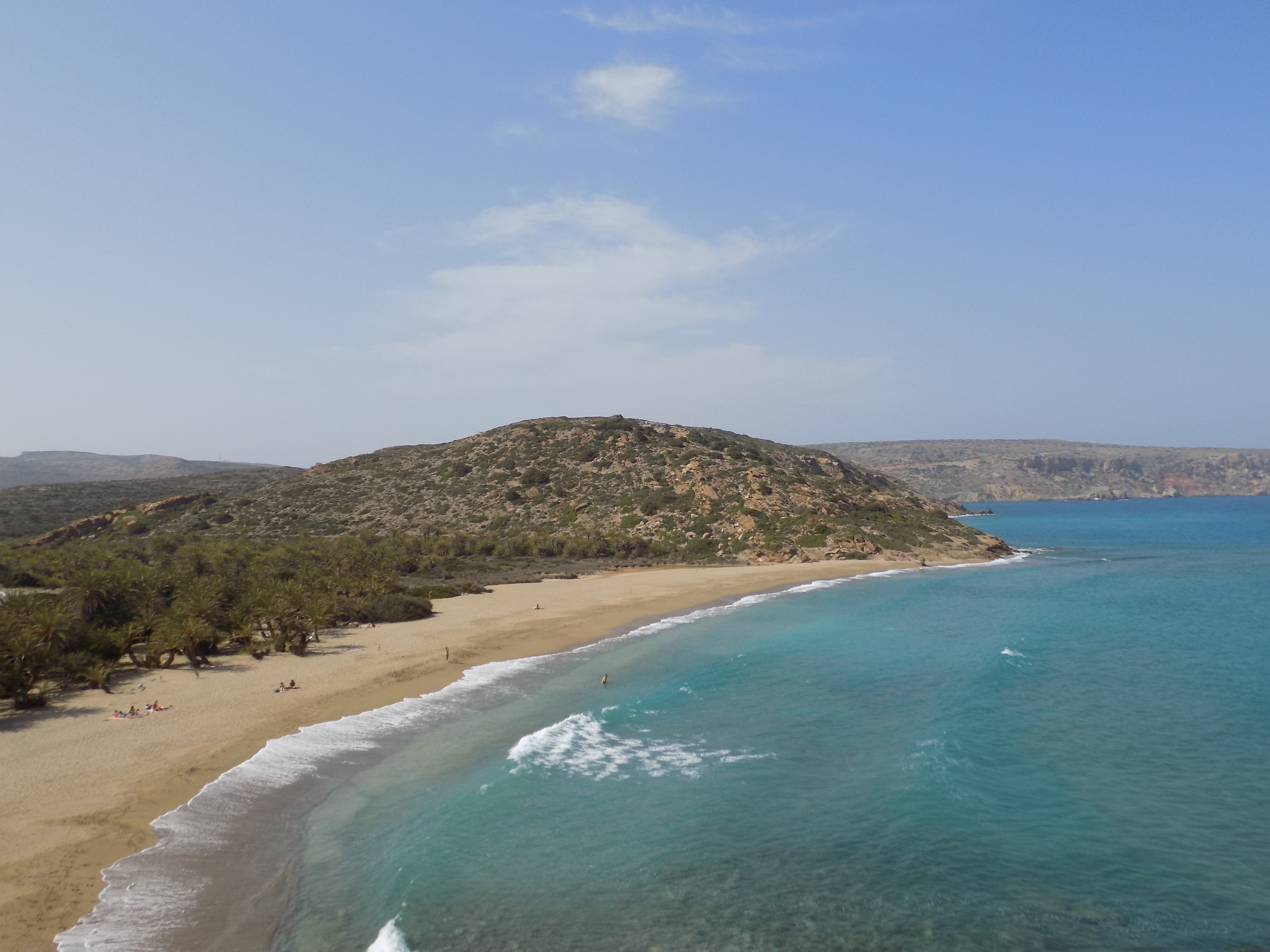 Vai Beach and Forest in Sitia.